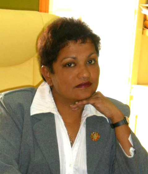 DanaSeetahalSC